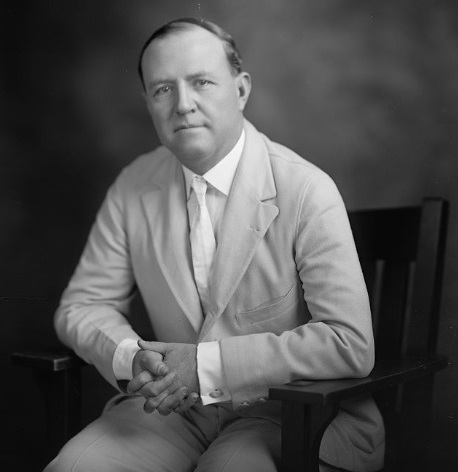 James W. Collier (Mississippi Congressman)